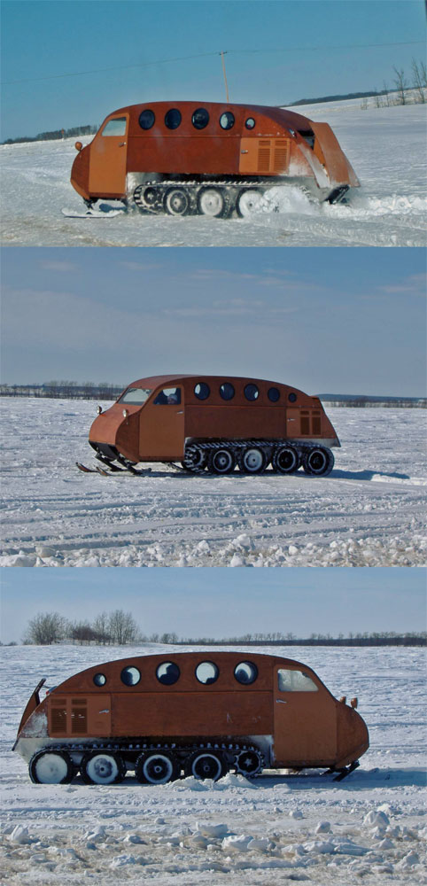 This is a completely restored Bombardier model B12 snowmobile, manufactured in 1949, it seats 12 passengers and is powered by a Chrysler gasoline engine.